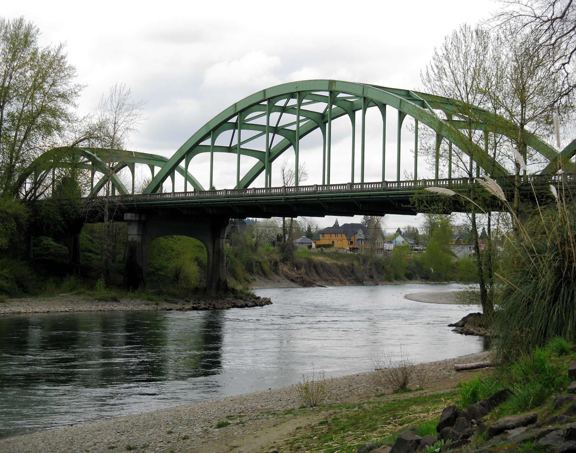 Looking upstream on the Clackamas River, 0.2 miles from its confluence with the Willamette River. Oregon Route 99E crosses the bridge. The photo was taken from Clackamette Park in Oregon City. The houses in the background are in Gladstone, Oregon.